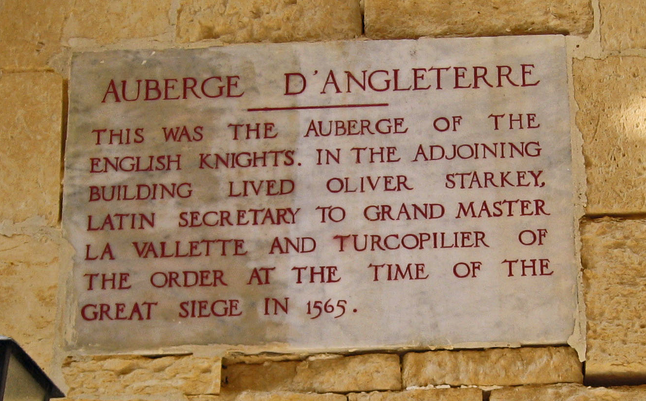 Photograph of the plaque commemorating Sir Oliver Starkey in Vittoriosa, Malta